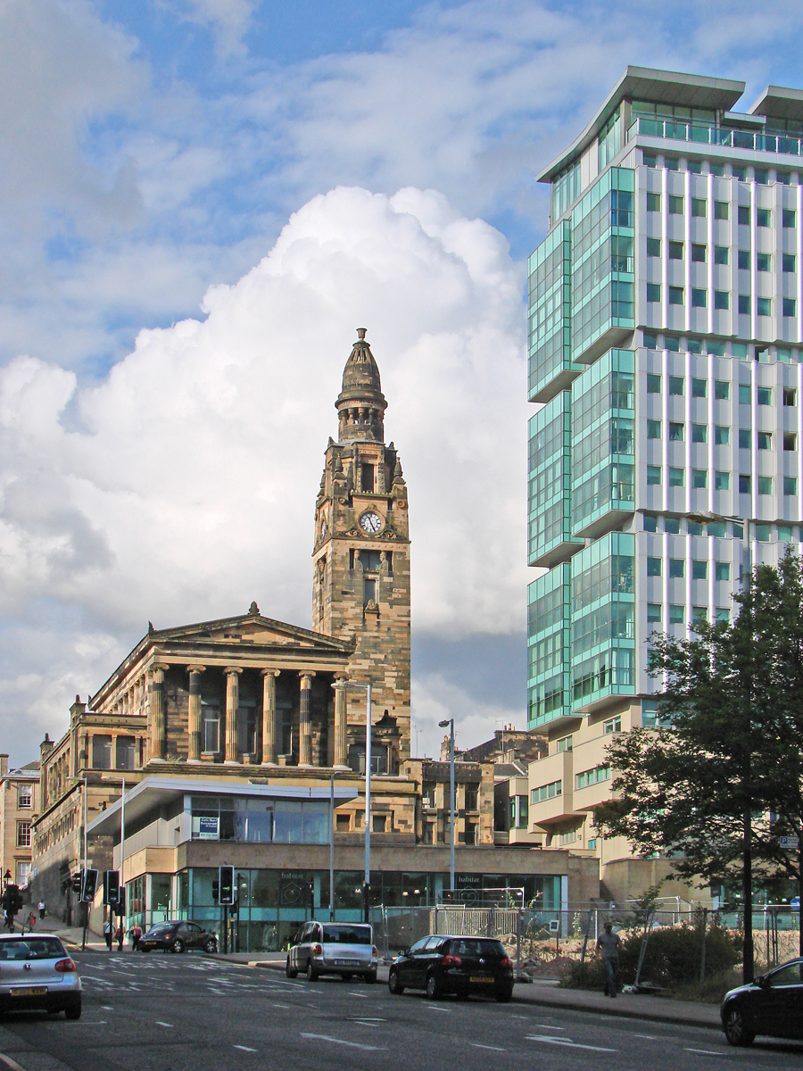 St Vincent Street Church, Glasgow From flickr: St Vincent Street-Milton Free Church, une église (à gauche sur la photo) conçue par l'architecte Alexander Thomson, appelé le Grec (1817-1875) Alexandre Thomson a rejeté le renouveau de l'architecture gothique qui caractérisait de nombreux bâtiments à l'époque victorienne, au profit d'un retour à l'architecture grecque ancienne. Le résultat est aujourd'hui particulièrement étrange et fait partie du charme éclectique de Glasgow.